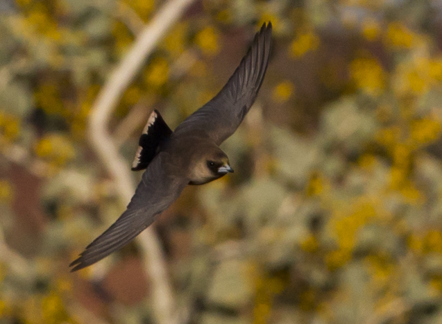 Little Woodswallow Artamus minor, Karratha, Pilbara region, Western Australia.